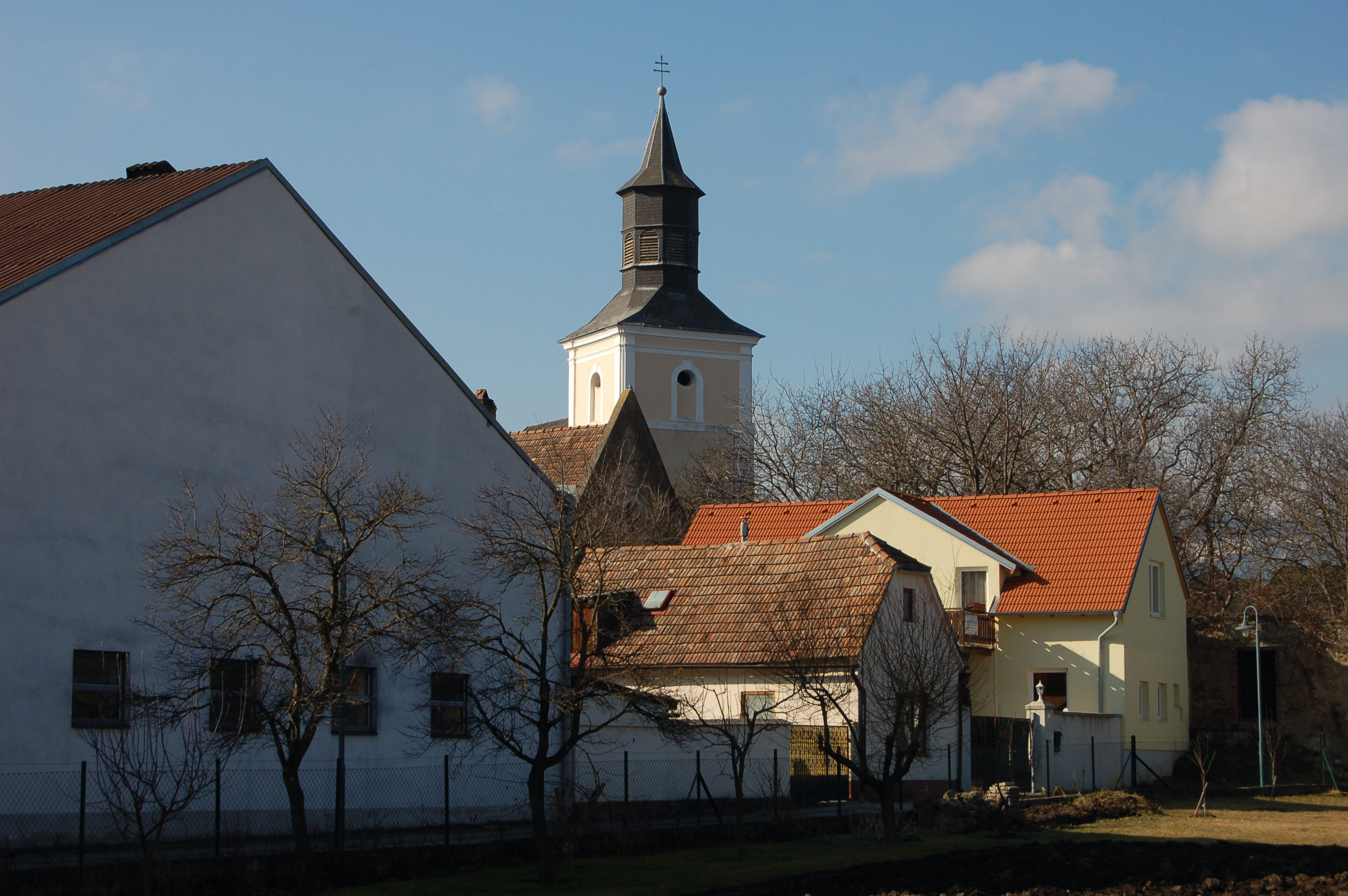 Spire of Saubersdorf palace chapel St. Vitus, municipality St. Egyden am Steinfeld, Lower Austria